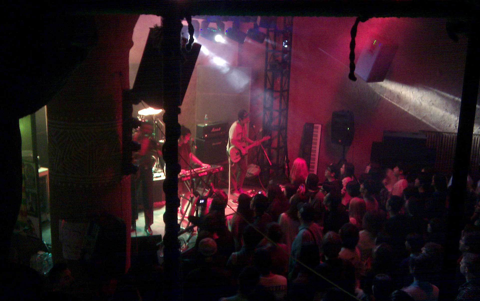 Goonam playing at Club Freebird (2014)